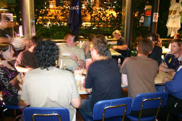 Lo-res image of the 2005-11-29 Wikipedia:Meetup/Melbourne post meeting dinner